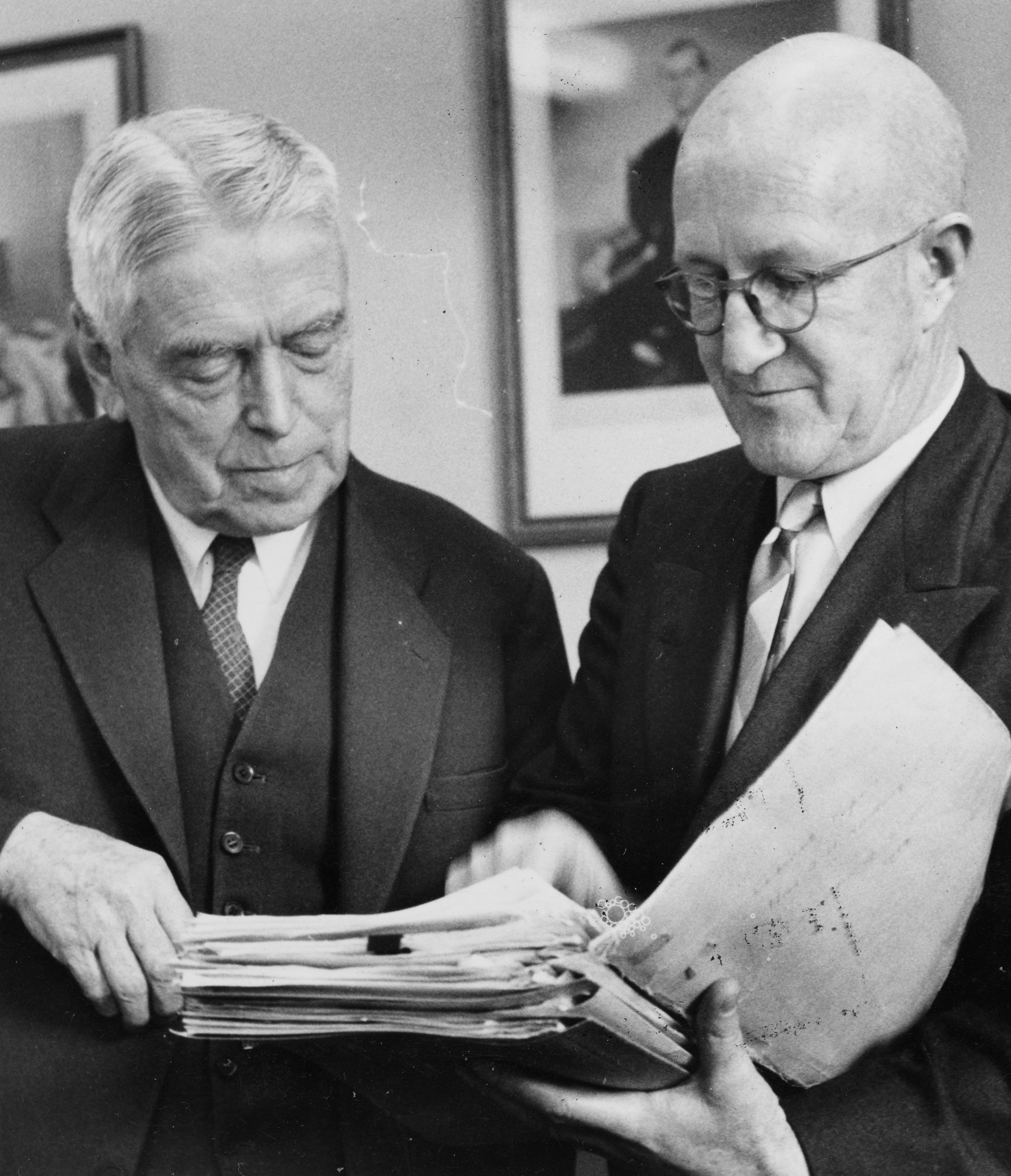 Final meeting between New Zealand Prime Minister Walter Nash (left), and the New Zealand Minister of Finance Arnold Nordmeyer, before Nash went to the Commonwealth Trade and Economic Conference in Montreal in 1958. Evening Post photograph. Photographer unidentified.